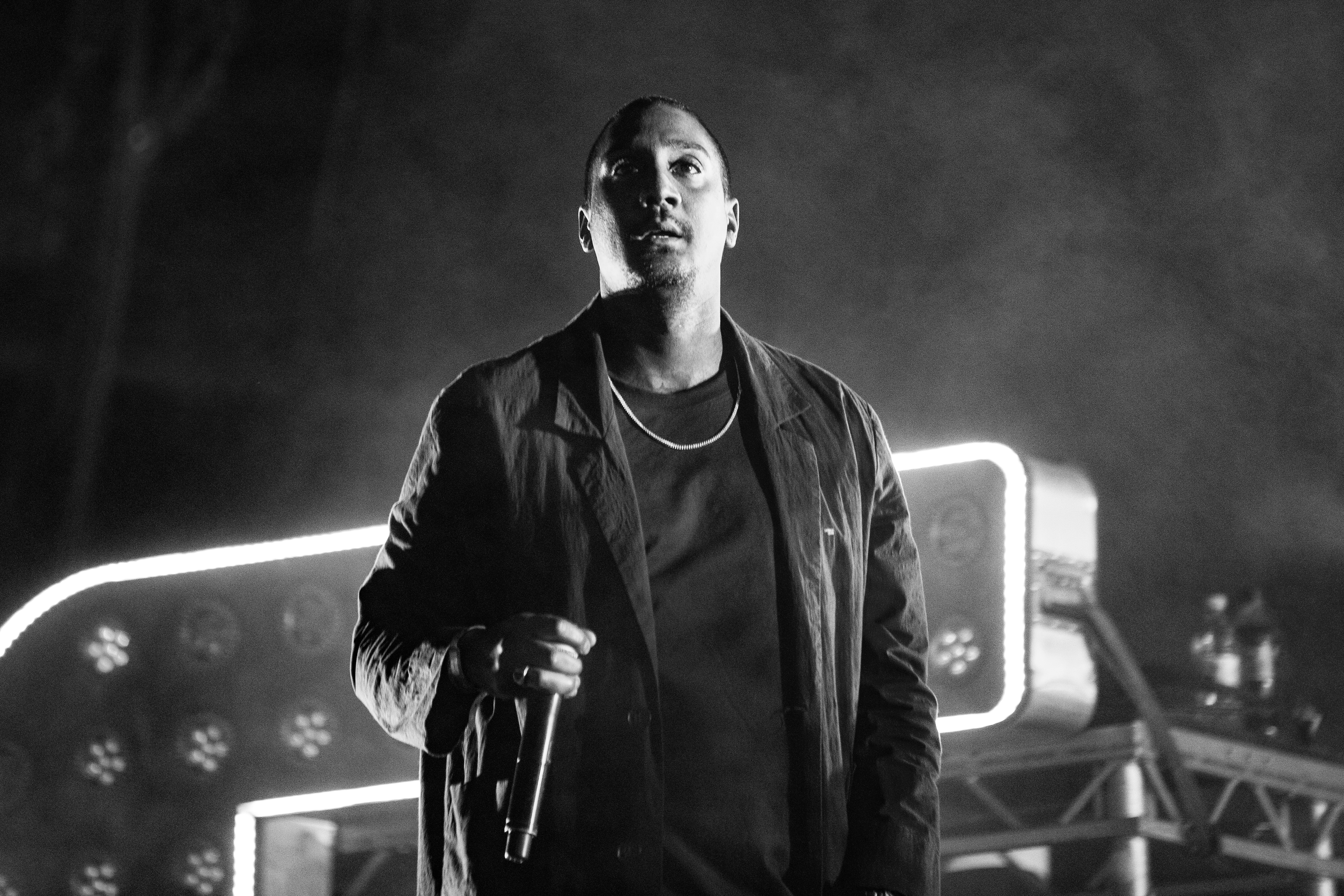 MC Rage with Chase & Status at SonneMondSterne 2018, Main Stage